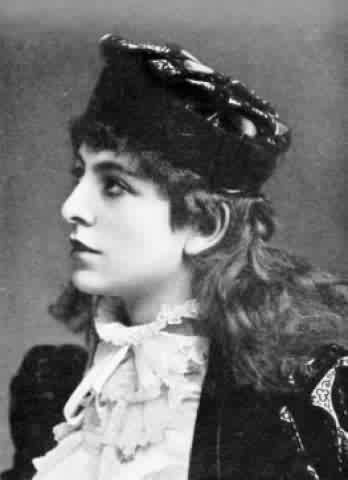 Sybil Grey as Sacharissa in Princess Ida (1884). Publicity photo of Sybil Grey taken about 1883. This photo was first published about 1883.